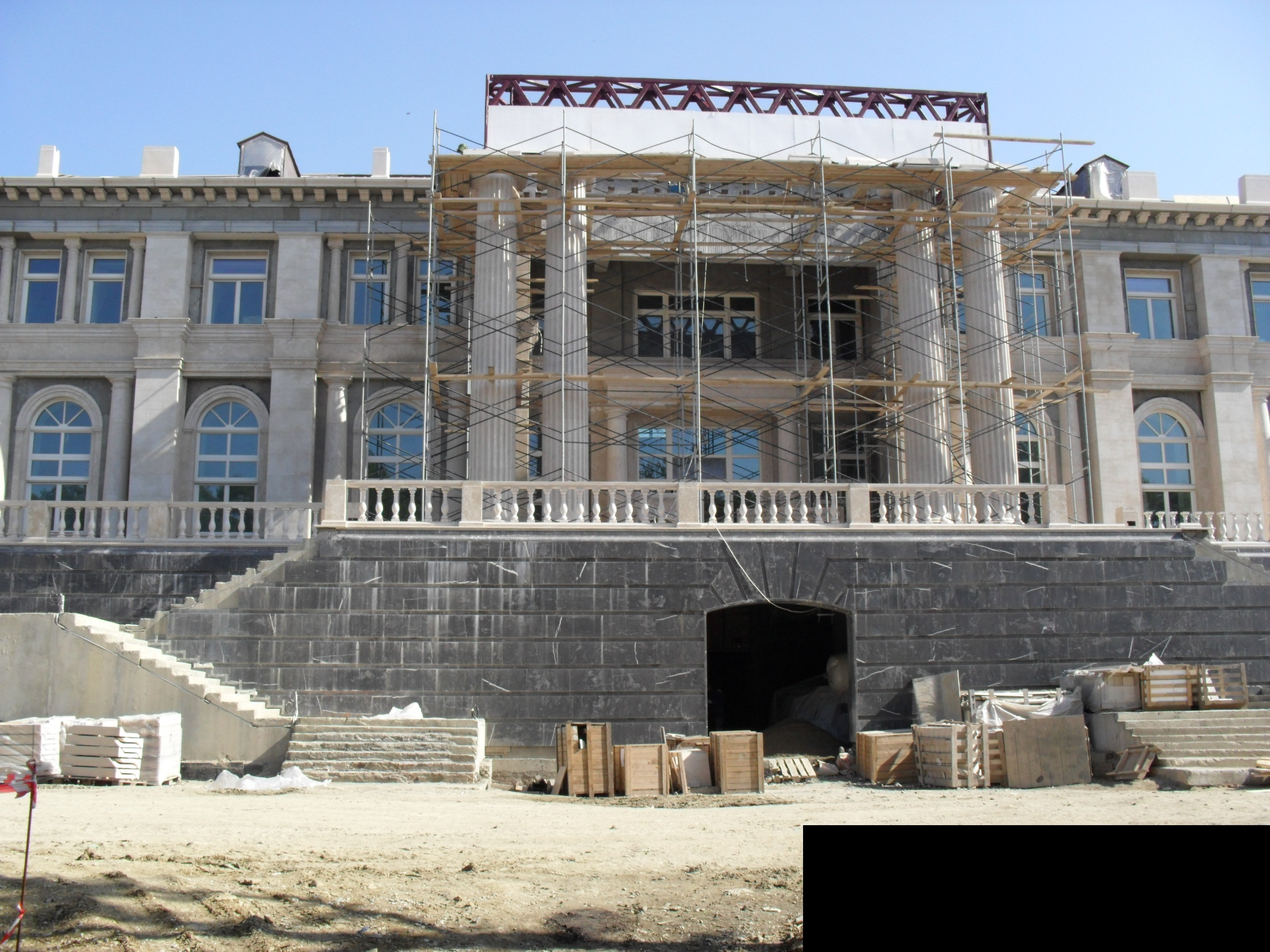 Construction work on "Putin's Palace", near the village of Praskoveevka in Krasnodar Krai, Russia.